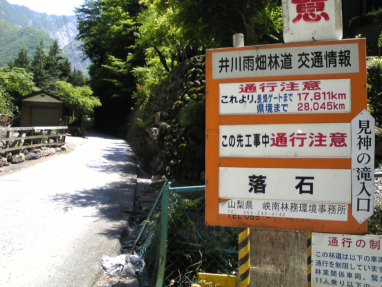 The Ikawa Amahata Forest Road in Hayakawa Town, Yamanashi Prefecture, Japan